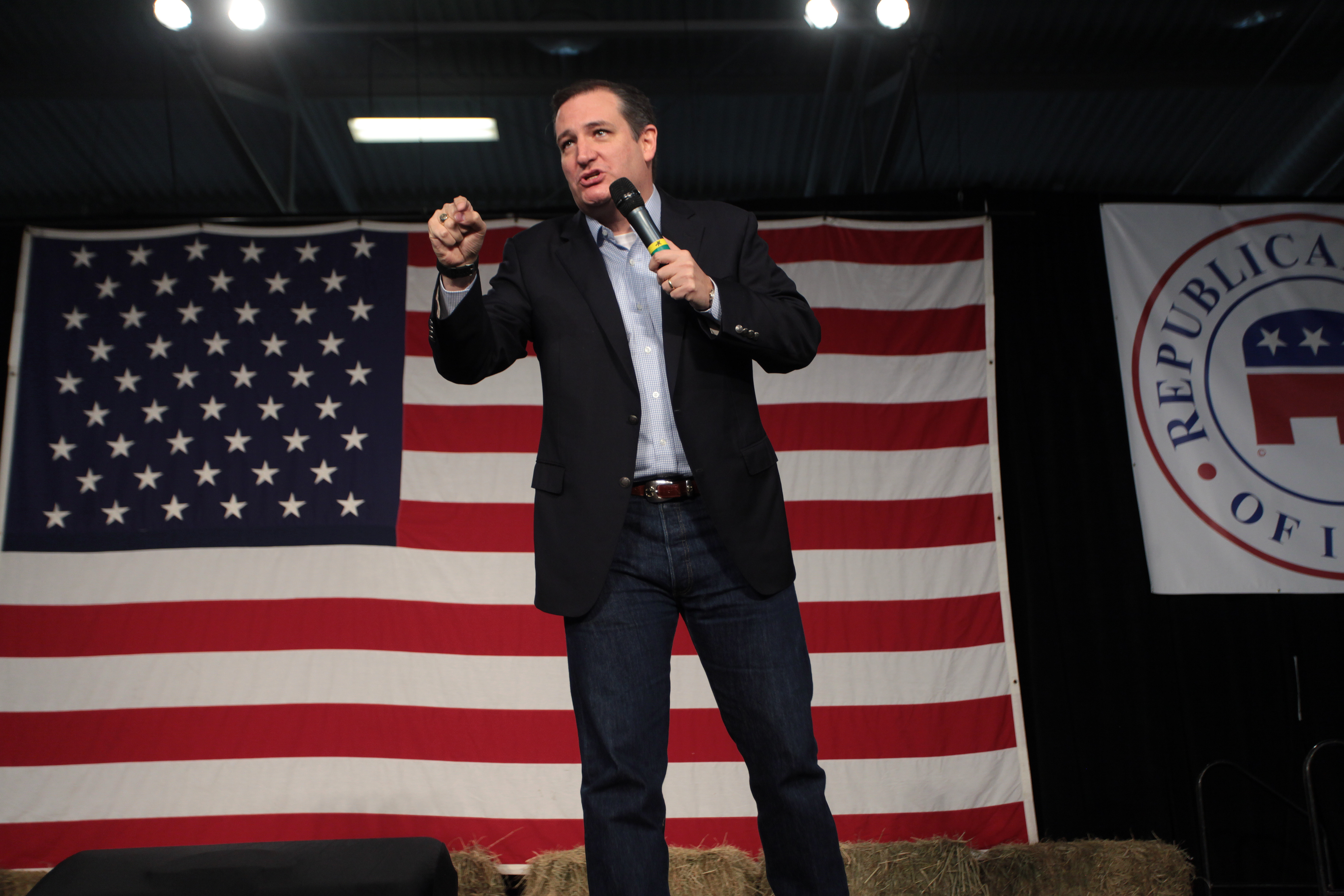 Ted Cruz speaking at the Iowa GOP's Growth and Opportunity Party in Des Moines, Iowa on October 31, 2015.